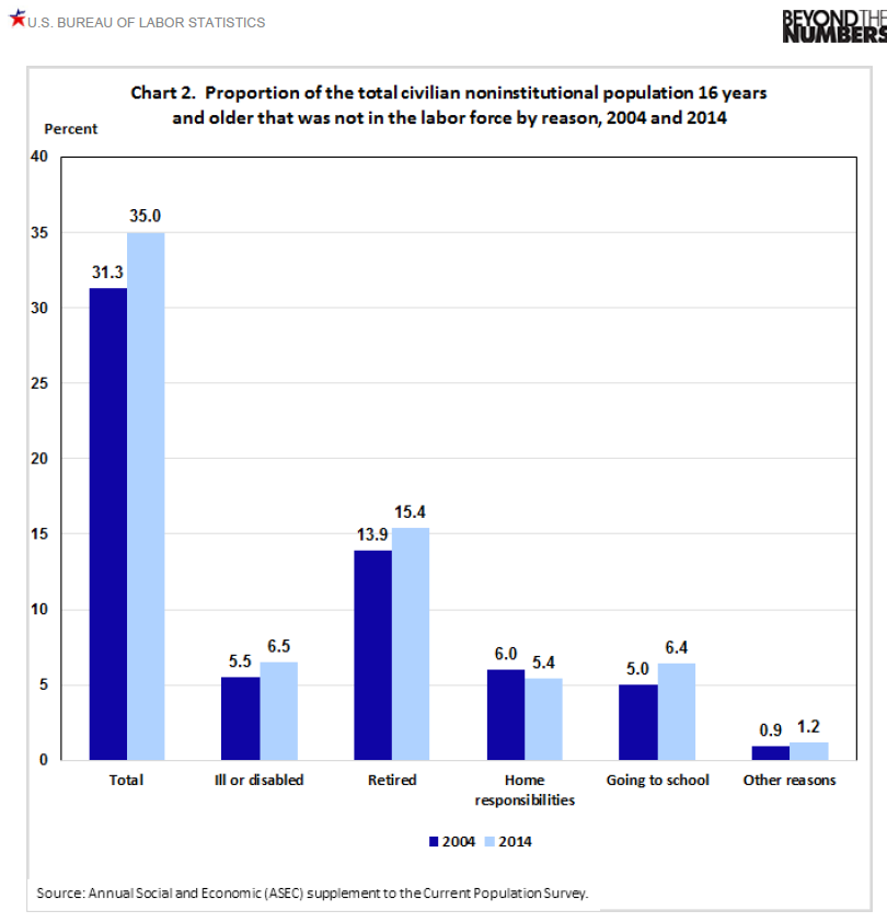 BLS graphic of U.S. Proportion of Civilian Non-Institutional Population Not in Workforce by Reason